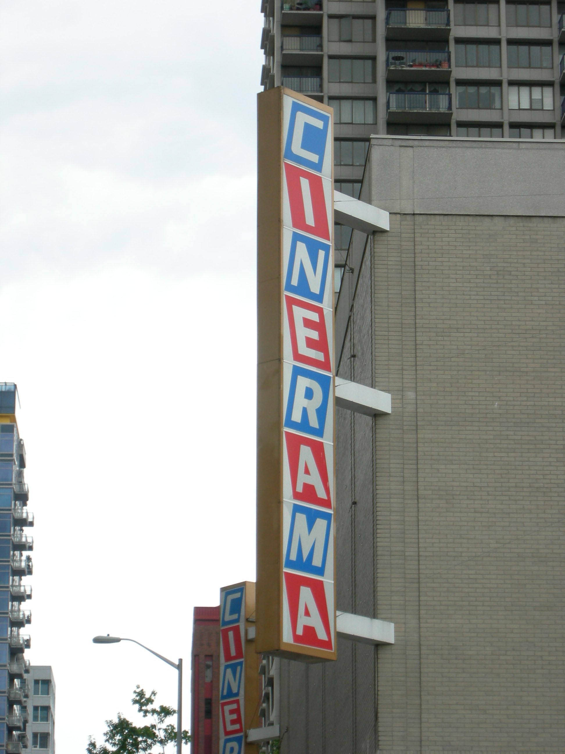 Cinerama theater, Seattle, Washington